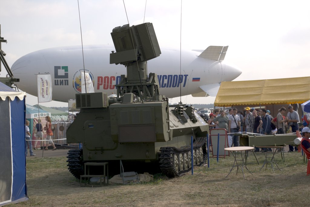 An rader system PPRU-M1-2 at the «MAKS 2007».aa